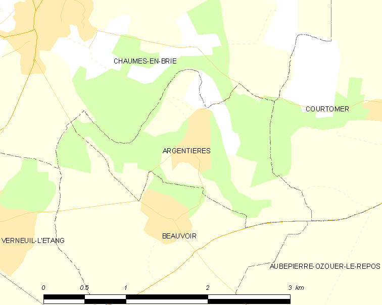 Map of French municipality Argentières